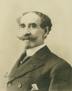 Photograph of Alexander Herrmann (died 1896), signed "Herrmann the Great" by his wife Adelaide